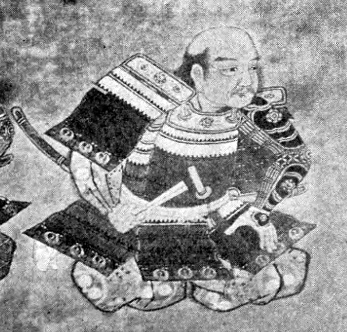 Makino Yasunari, a lord of the Ogo domain